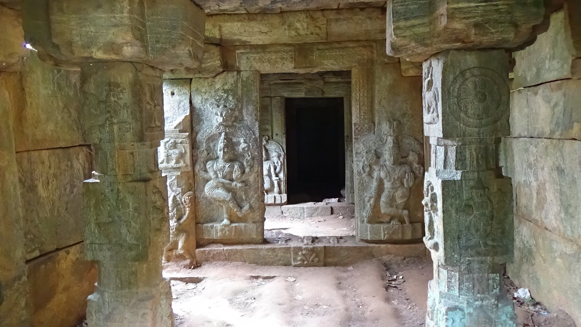 artistic representations in th ruined jain temple at Panamaram